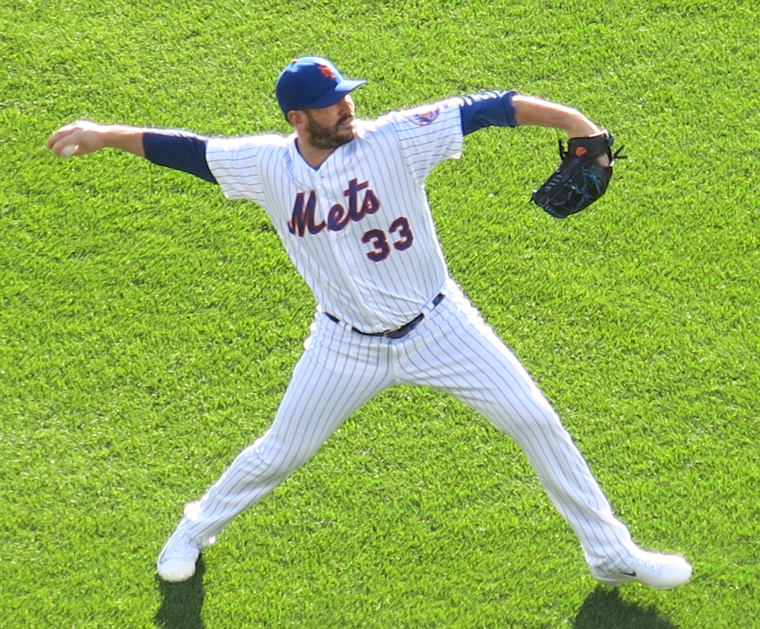 Matt Harvey of the New York Mets, June 17, 2016.